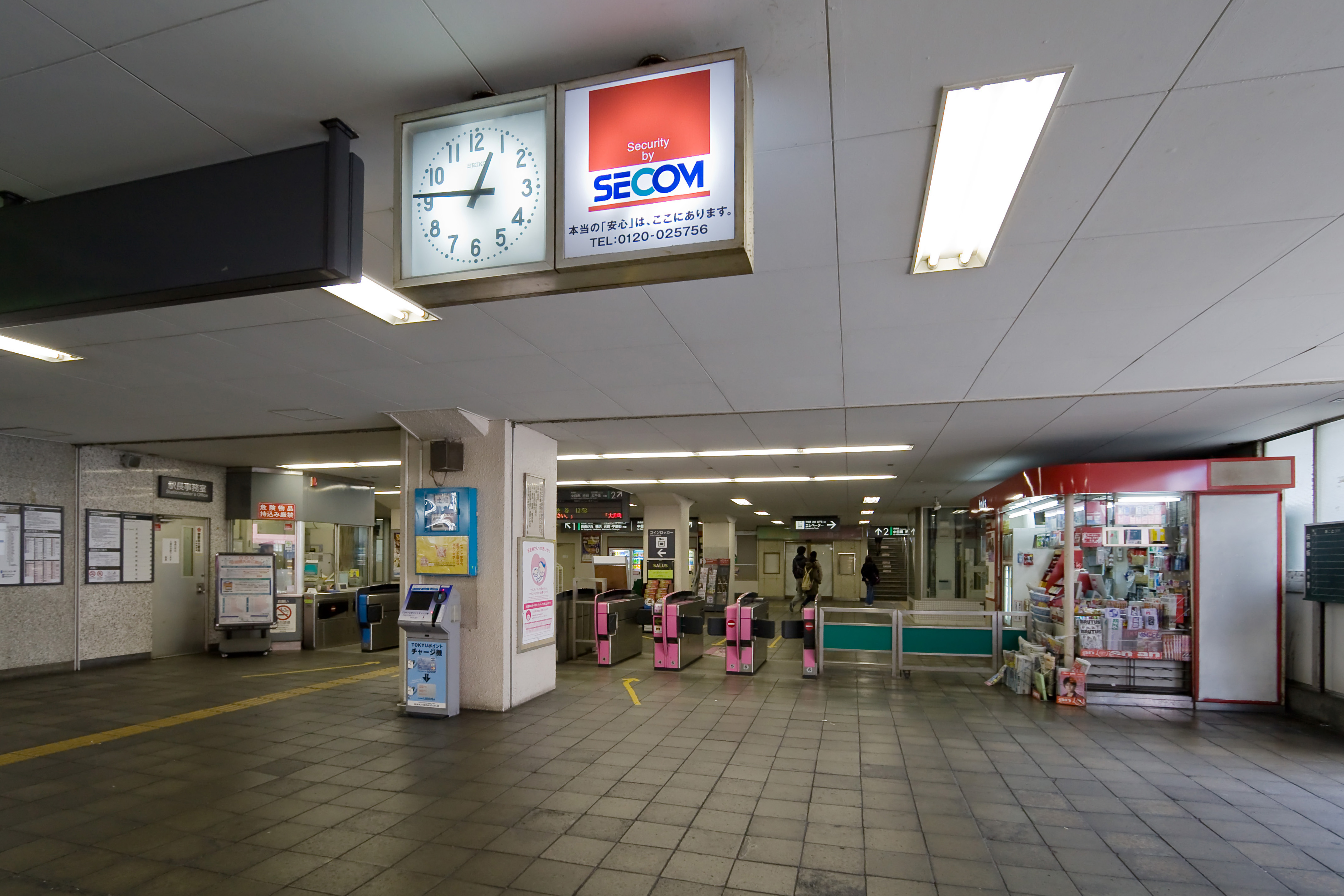 The ticket barriers at Yutenji Station on the Tokyu Toyoko Line in Tokyo, Japan